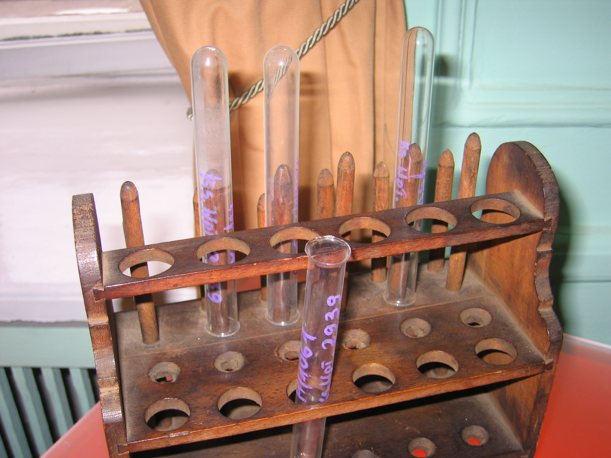 Test tubes used by Marie Curie in her experiments, Maria Skłodowska-Curie Museum.